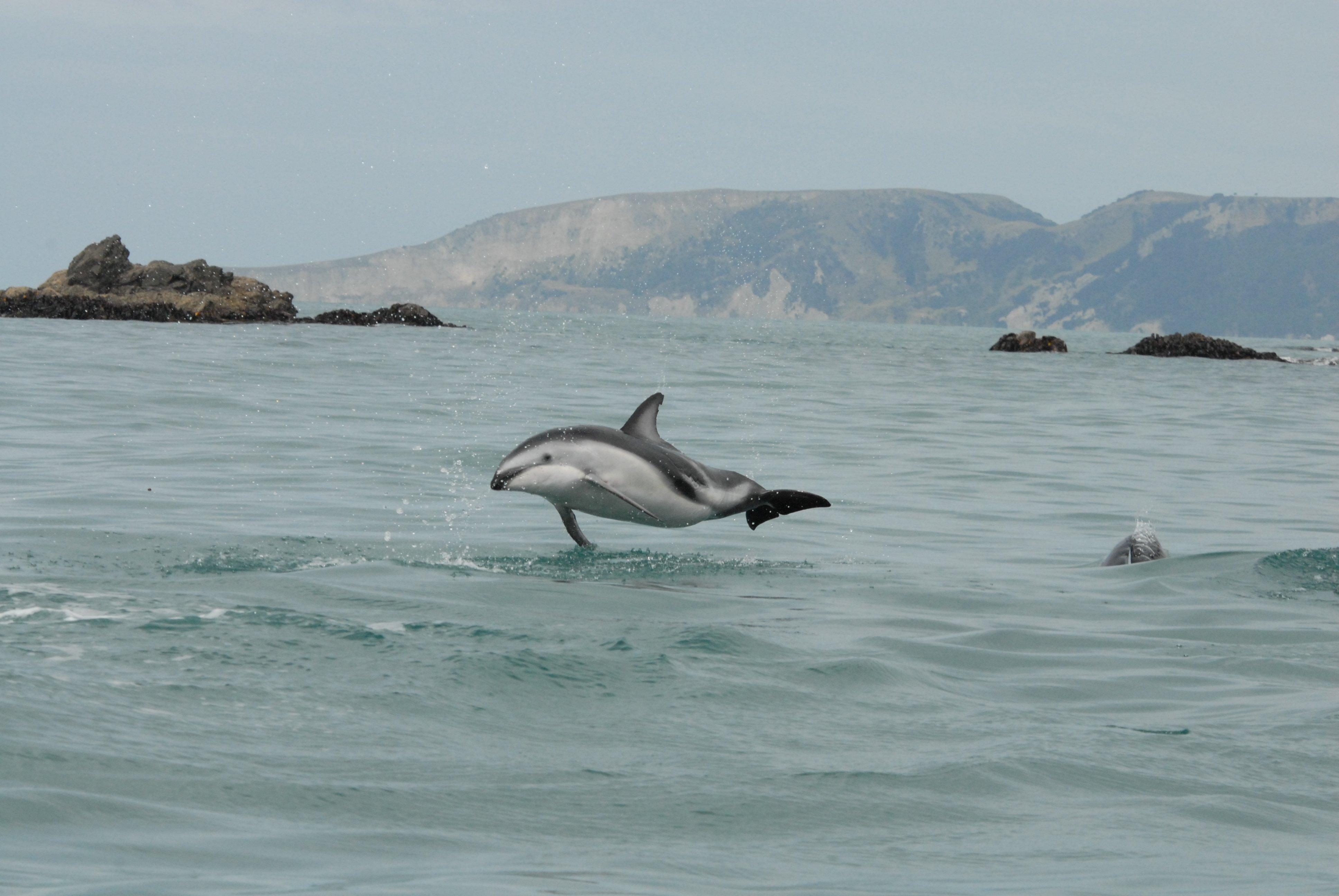 Dusky dolphin (Lagenorhynchus obscurus)